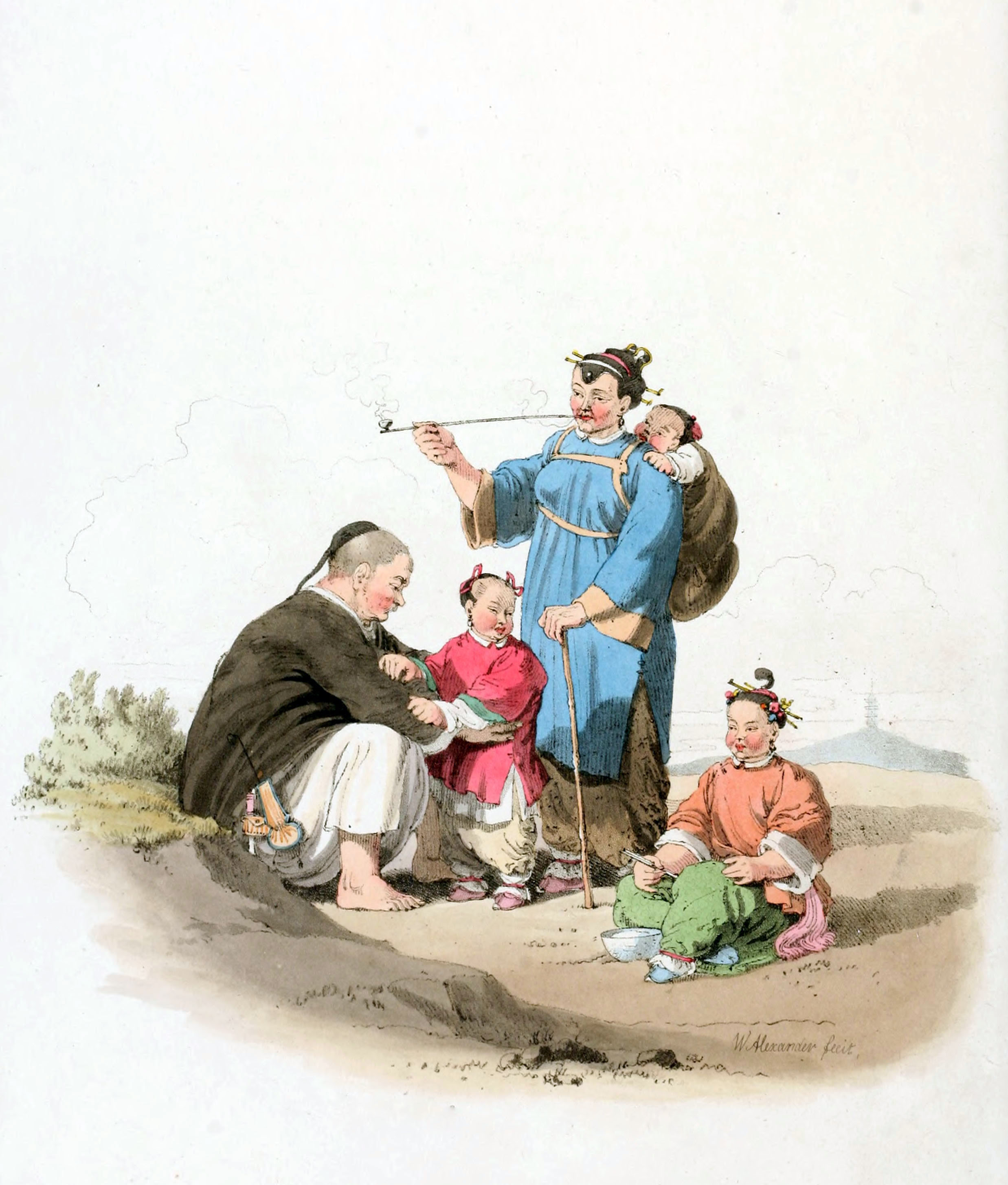 Drawing by William Alexander, draughtsman of the Macartney Embassy to China in 1793. The mother is in the dress of the northern provinces; the peak on her forehead is of velvet, and adorned with a bead of agate or glass; her hair is combed back. Father wears, appended from his girdle, a tobacco purse, knife case, and his flint and steel. The elder girl has her hair twisted into a hard knob at the crown, and ornamented with artificial flowers ; she is prepared for dinner, having her bowl of rice by her, and her chopsticks in her hand. Smoking tobacco was universally prevalent in China. Image taken from The Costume of China, illustrated in forty-eight coloured engravings, published in London in 1805.